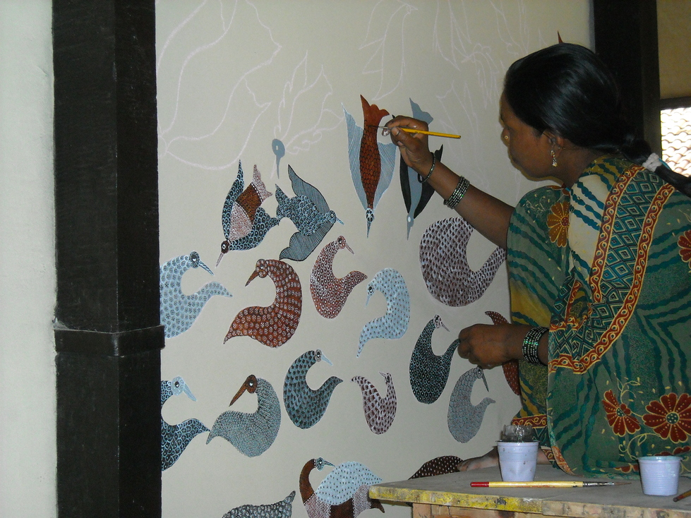 Tribal painting, though popular among most tribes in MP, is extremely well honed as an art among the Gond tribe of Mandala.